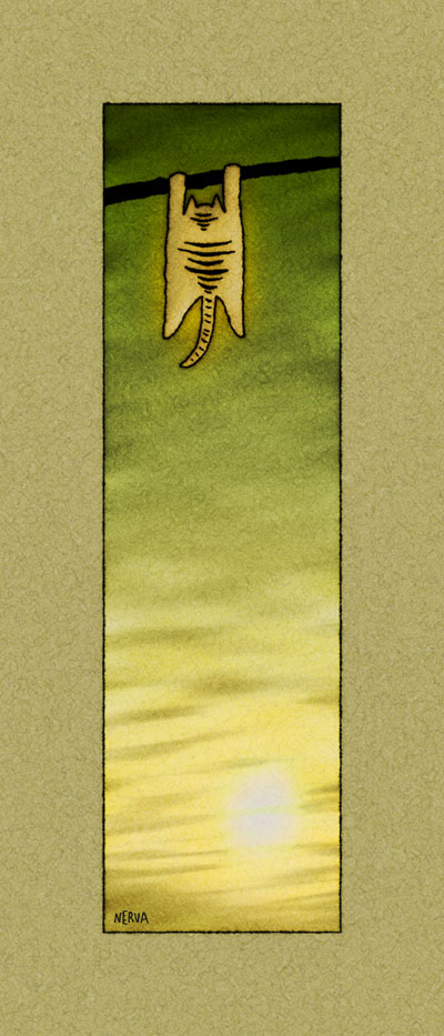 She Doesn't Show Her Front